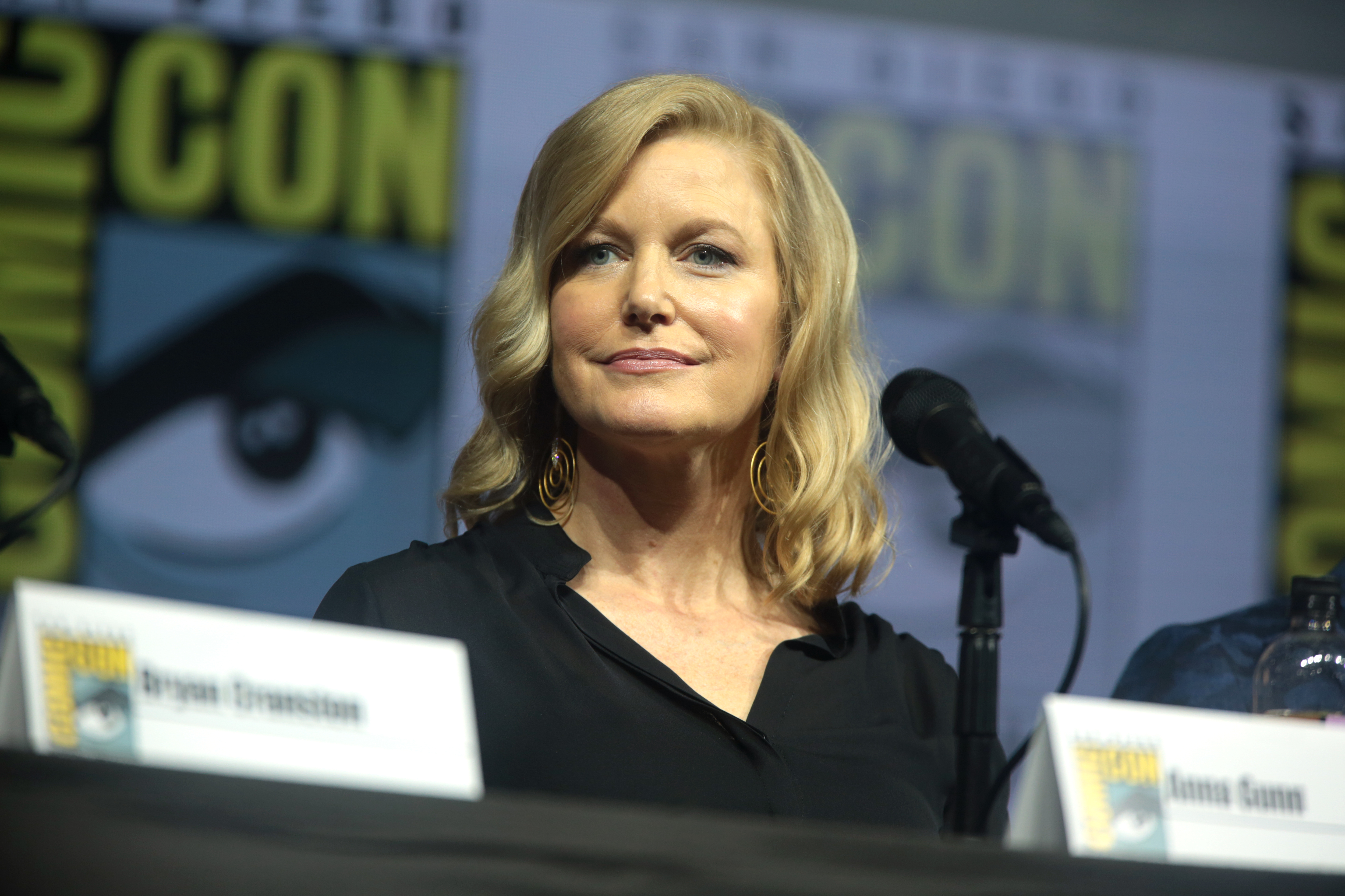 Anna Gunn speaking at the 2018 San Diego Comic Con International, for "Breaking Bad 10th Anniversary Reunion", at the San Diego Convention Center in San Diego, California.